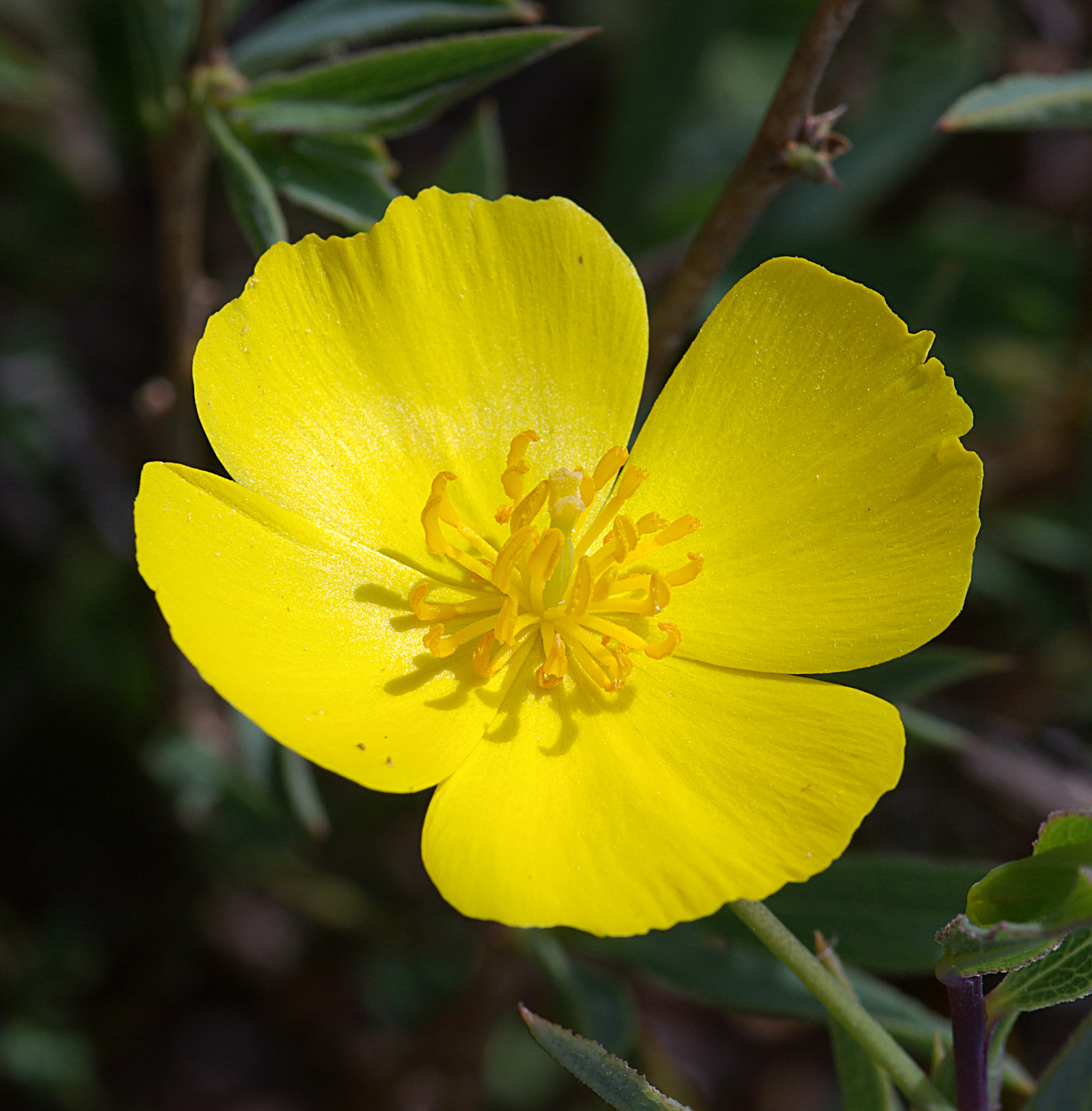 CALIFORNIA - FLOWERS of San Luis Obispo Co